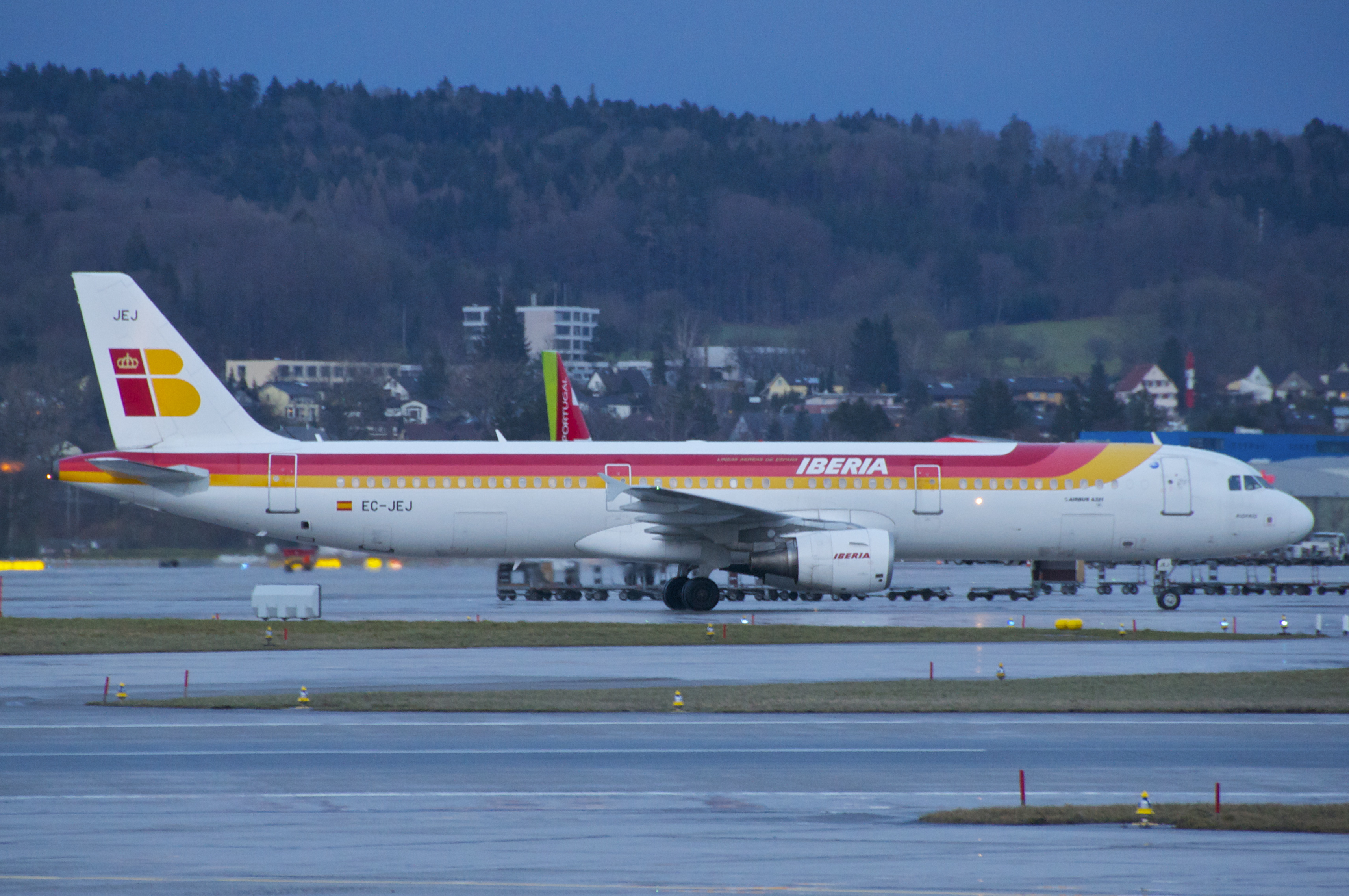 First flight: January 12, 2005 and delivered to IB on February 18, 2005...(c/n 2381), named 'Riofrio'...